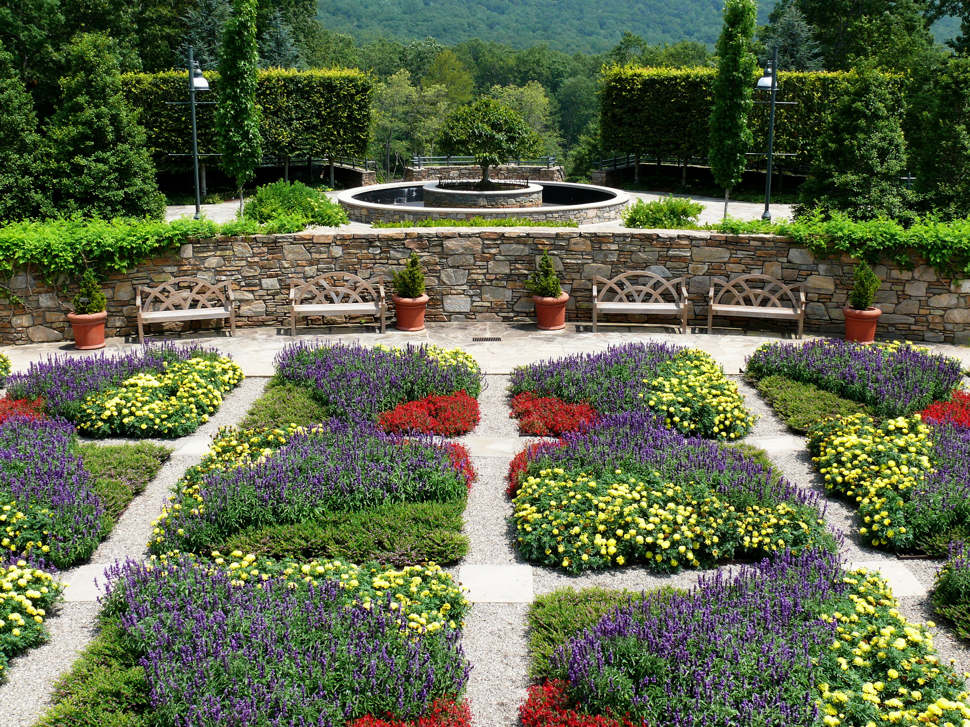 The Blue Ridge Quilt Garden is a parterre exhibit at the North Carolina Arboretum Inspired by patterns developed by southern Appalachian quilters. Digital photo taken with a Panasonic Lumix DMC-FZ50 in Buncombe County, NC, USA.